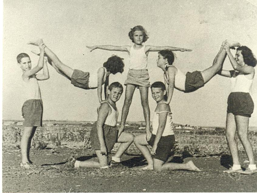 Education in Israel - Kiryat Ata